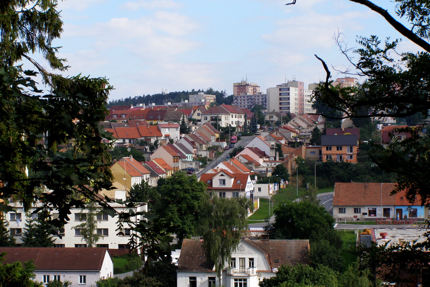 Třebíč-Nové Město, Nové Dvory. Branka street